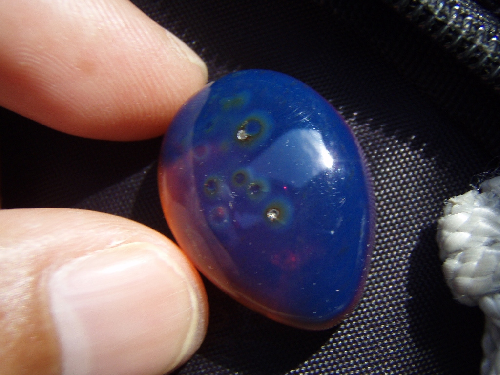 Gem-like polished cabochon Blue Java amber from West Java, Indonesia.